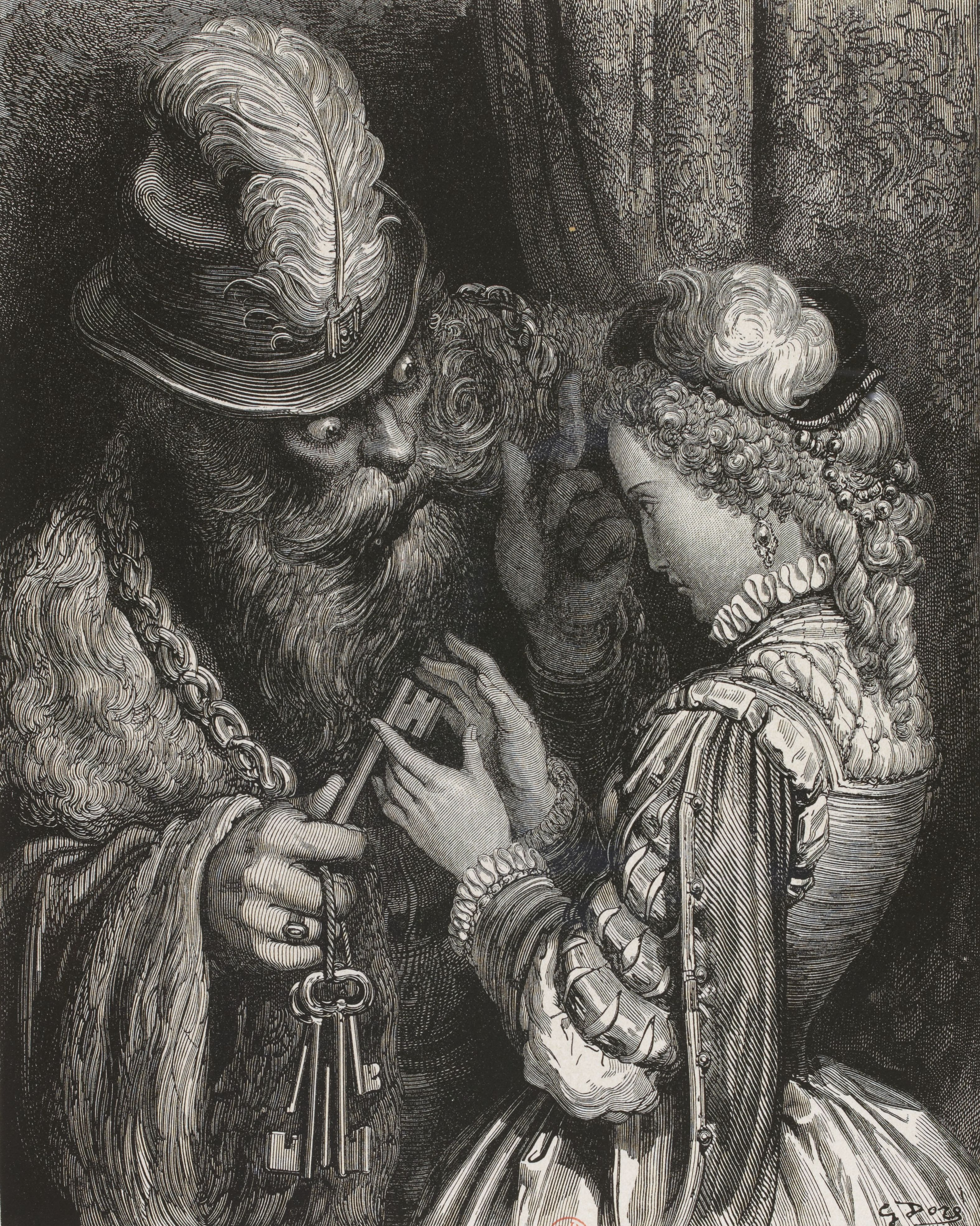 Woodcut 33 x 27 cm Barbe Bleue (Bluebeard), published for the first time in Les Contes de Perrault (Paris, Jules Hetzel, 1862) illustrated by Gustave Doré, board next to p. 56. Link to the page with the illustration in an online eBook edition of the original book.